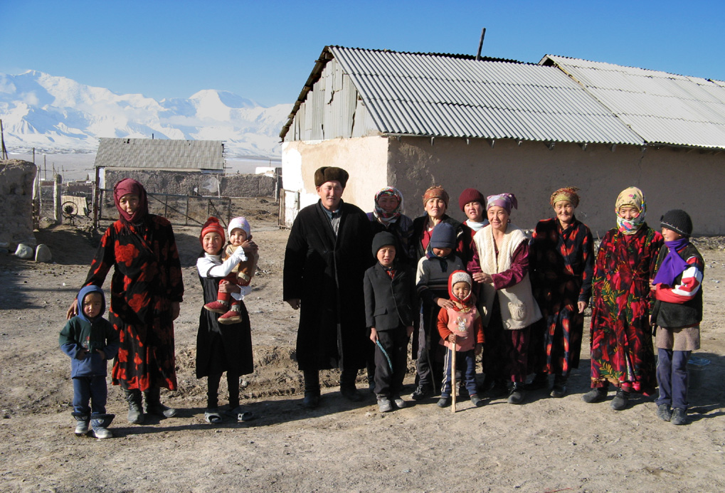 Kyrgyz family in the village of Sary-Mogol, Osh province